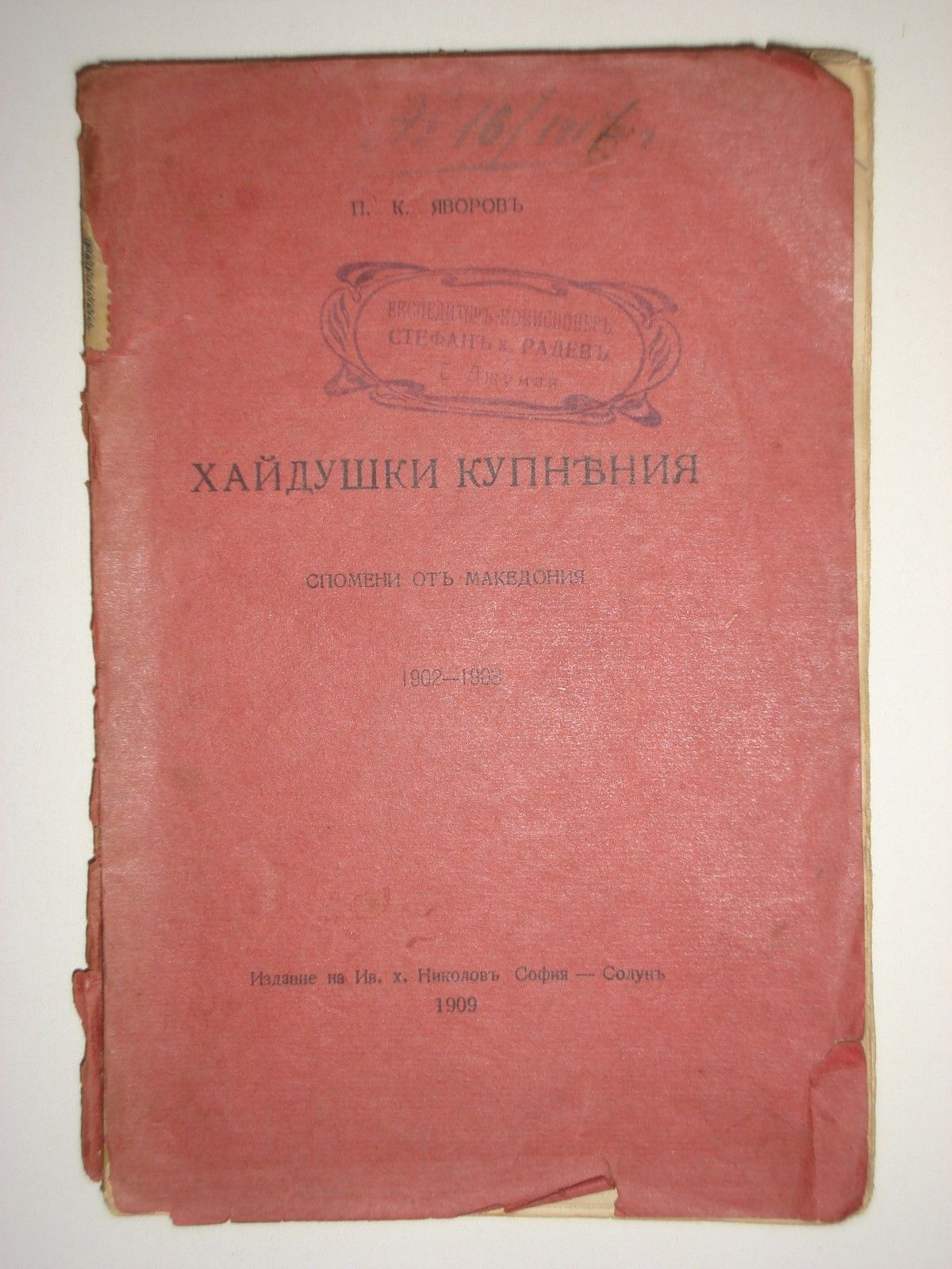 Haydushki Kopneniya